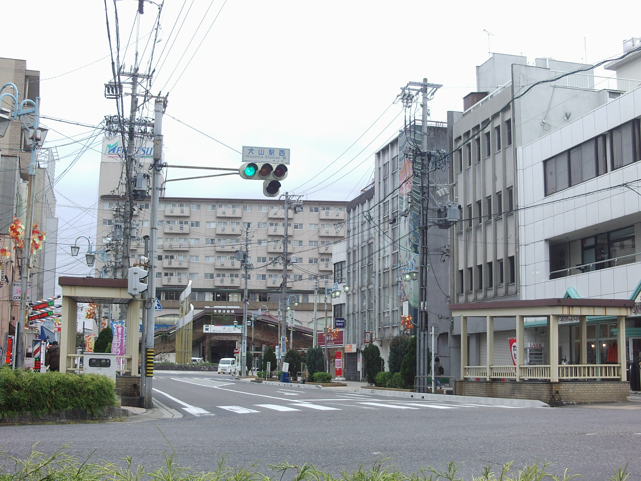 Aichi prefectural road No.187 in Inuyama, Inuyama, Aichi. Inuyama station west side.